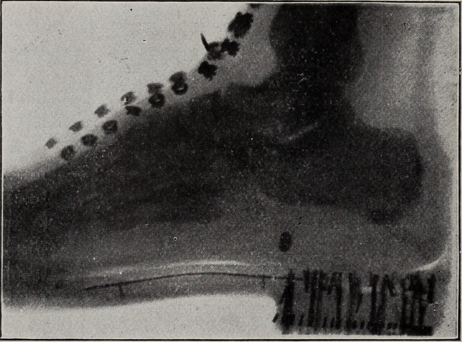 Title: American X-ray journal Year: 1900 (1900s) Authors: Subjects: X-Rays Radiography Publisher: St. Louis: American X-Ray Publishing Co. Caption: Fig. 2. 22-Caliber Ball in the Foot. (Shoe on.) Relevant text: Fig. 2 shows a 22-caliber ball in the foot. This skiagraph was made with the shoe and sock on, which only adds to the wonder of the x-ray work. The bullet was easily removed after being located. Note About Images: These images are extracted from scanned page images that may have been digitally enhanced for readability - coloration and appearance of these illustrations may not perfectly resemble the original work.